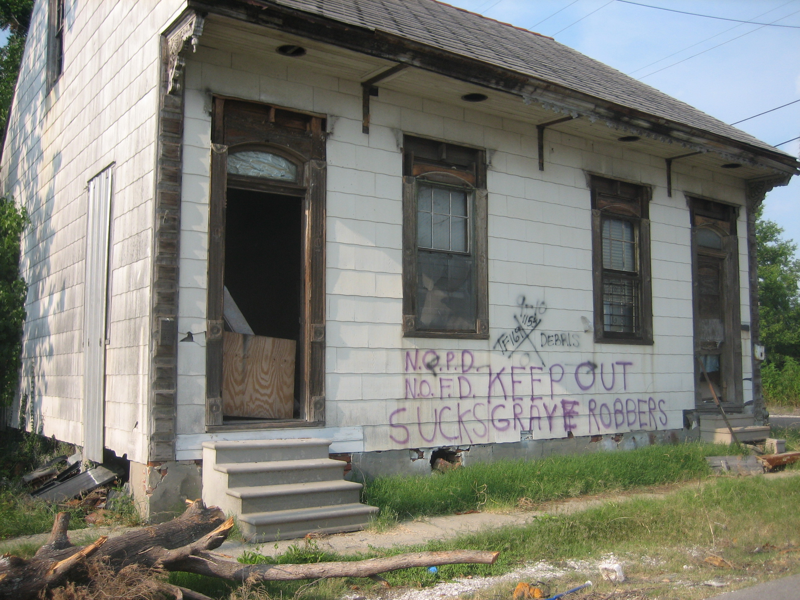 New Orleans after Hurricane Katrina. Lower 9th Ward flood devastated Holy Cross residential neighborhood. Sign distainful of New Orleans Police & Fire departments and looters ("grave robbers") who have been preying on area